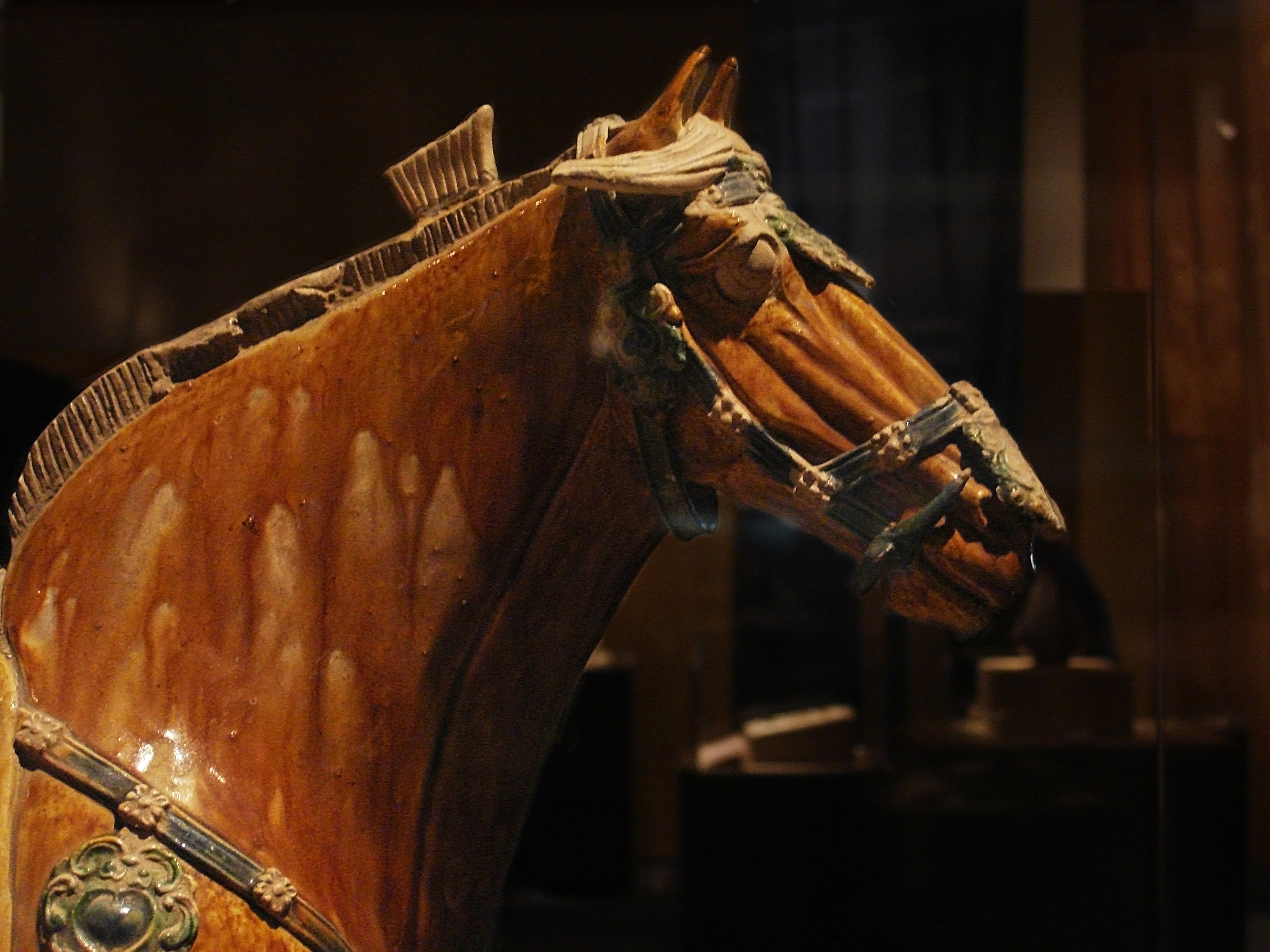 Tang Dynasty (A.D. 618 - 907) Excavated at Xi'an, Shaanxi Province, 1957 This yellow-glazed pottery horse includes a carefully sculpted saddle, which is decorated with leather straps and ornamental fastenings featuring eight-petalled flowers and apricot leaves.